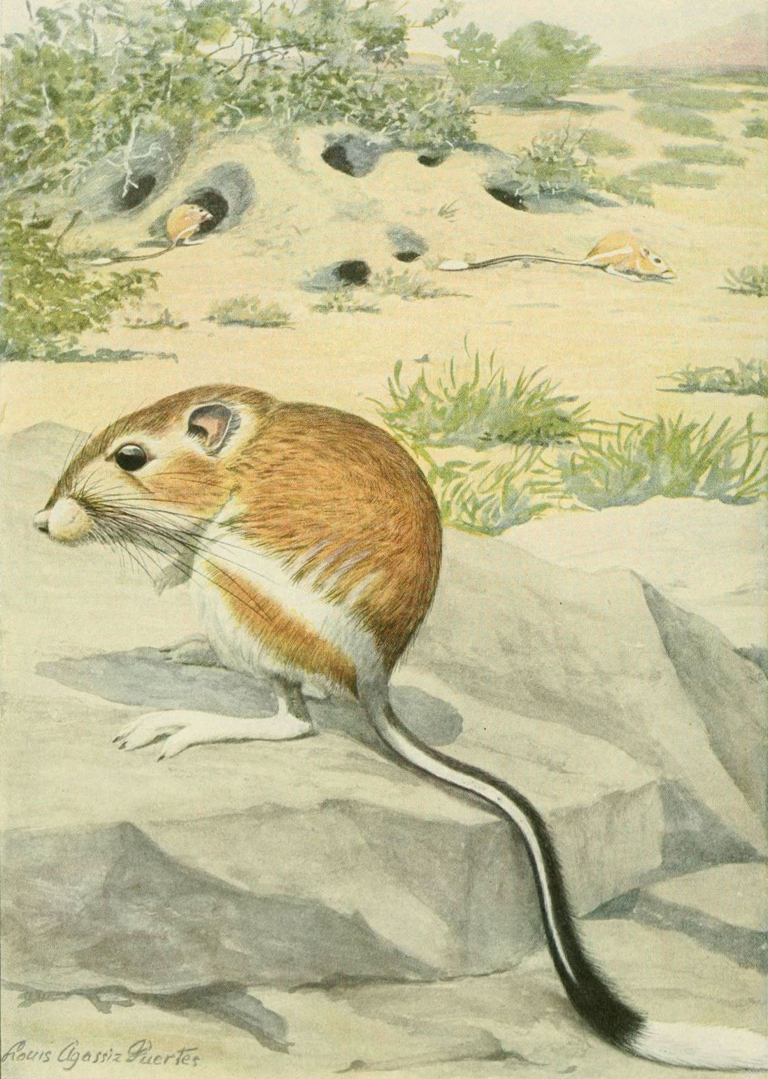 KANGAROO RAT Dipodomys spectabilis 518